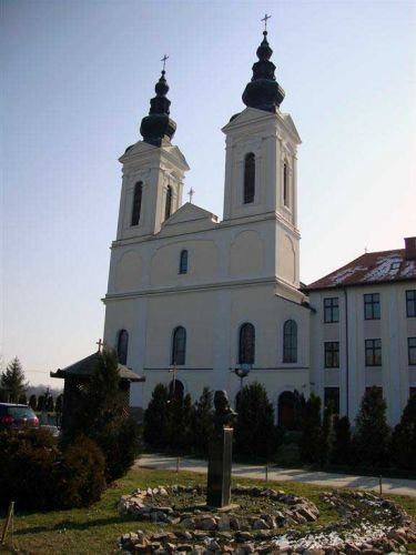 Franciscan monastery and church,Tolisa